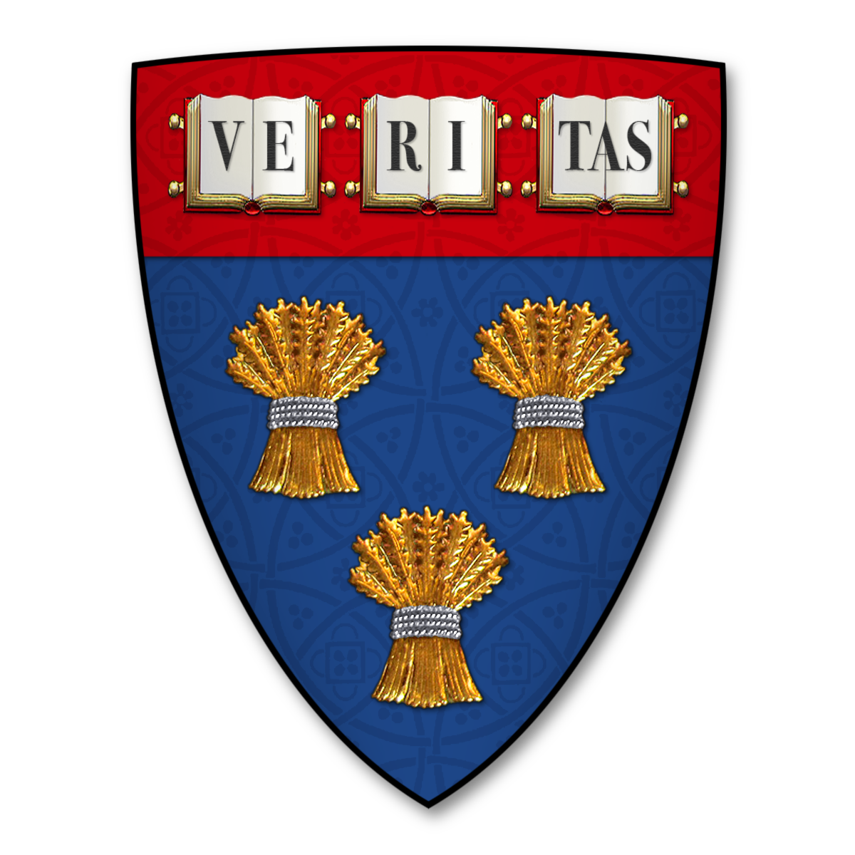 Coat of arms (seal, emblem, shield) of Harvard Law School